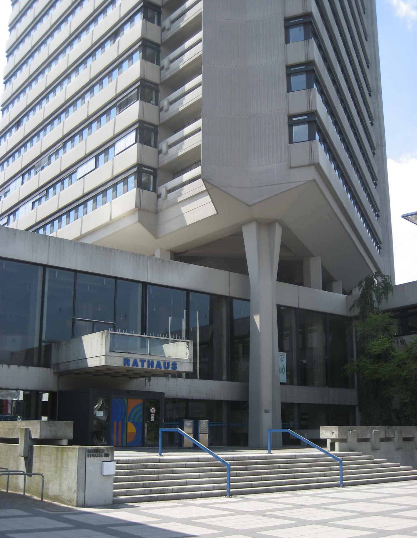 City hall Offenbach, opened in 1971. Architects:Maier, Graf, Speidel, Schanty